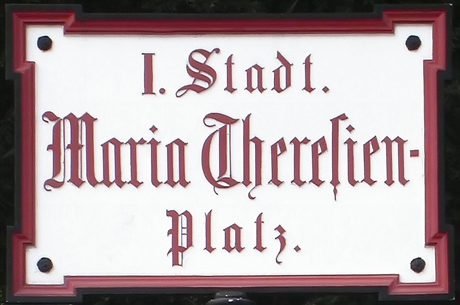 Austria, Vienna, Maria-Theresien-Platz